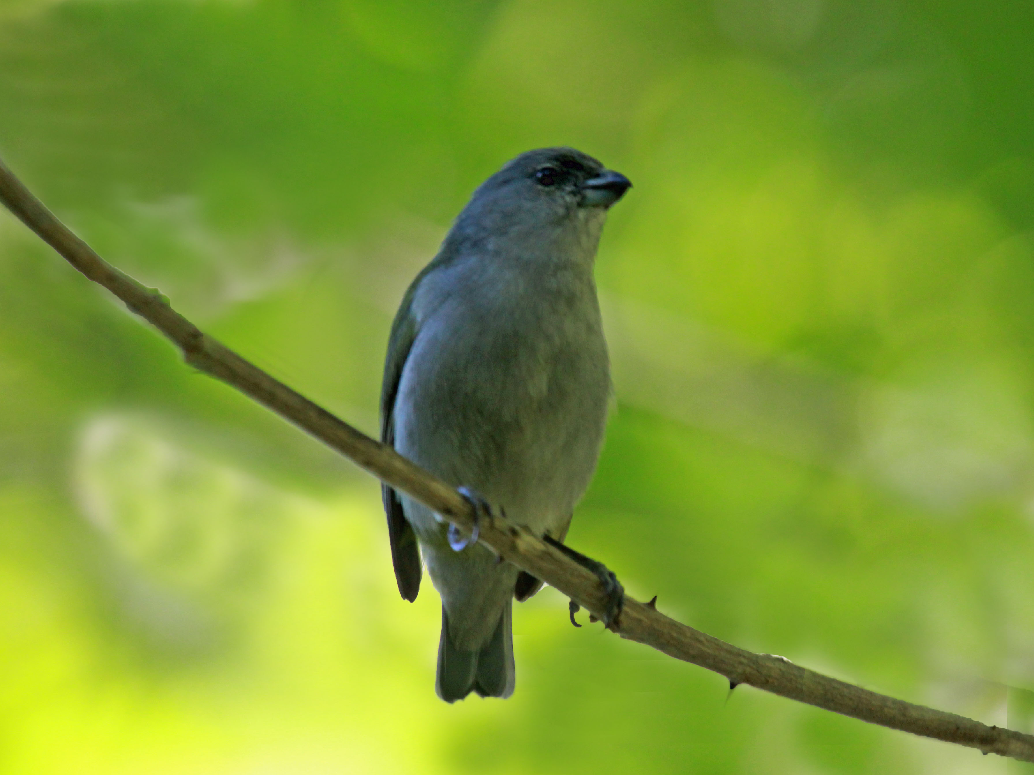 Jamaican Euphonia (Euphonia jamaica) in Blue Mountains of Jamaica